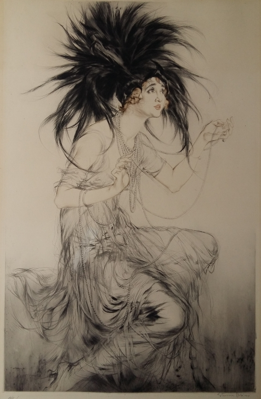 Gaby Deslys's portrait by Etienne Drian (1885-1960), circa 1910.